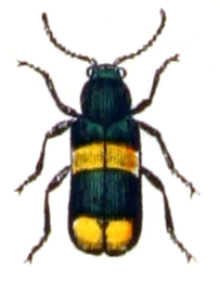 Anthocomus fasciatus, from Calwer's Käferbuch, Table 27, Picture 24. Taxonomy was updated to 2008, using mostly the sites Fauna Europaea and BioLib. Please contact Sarefo if the determination is wrong!